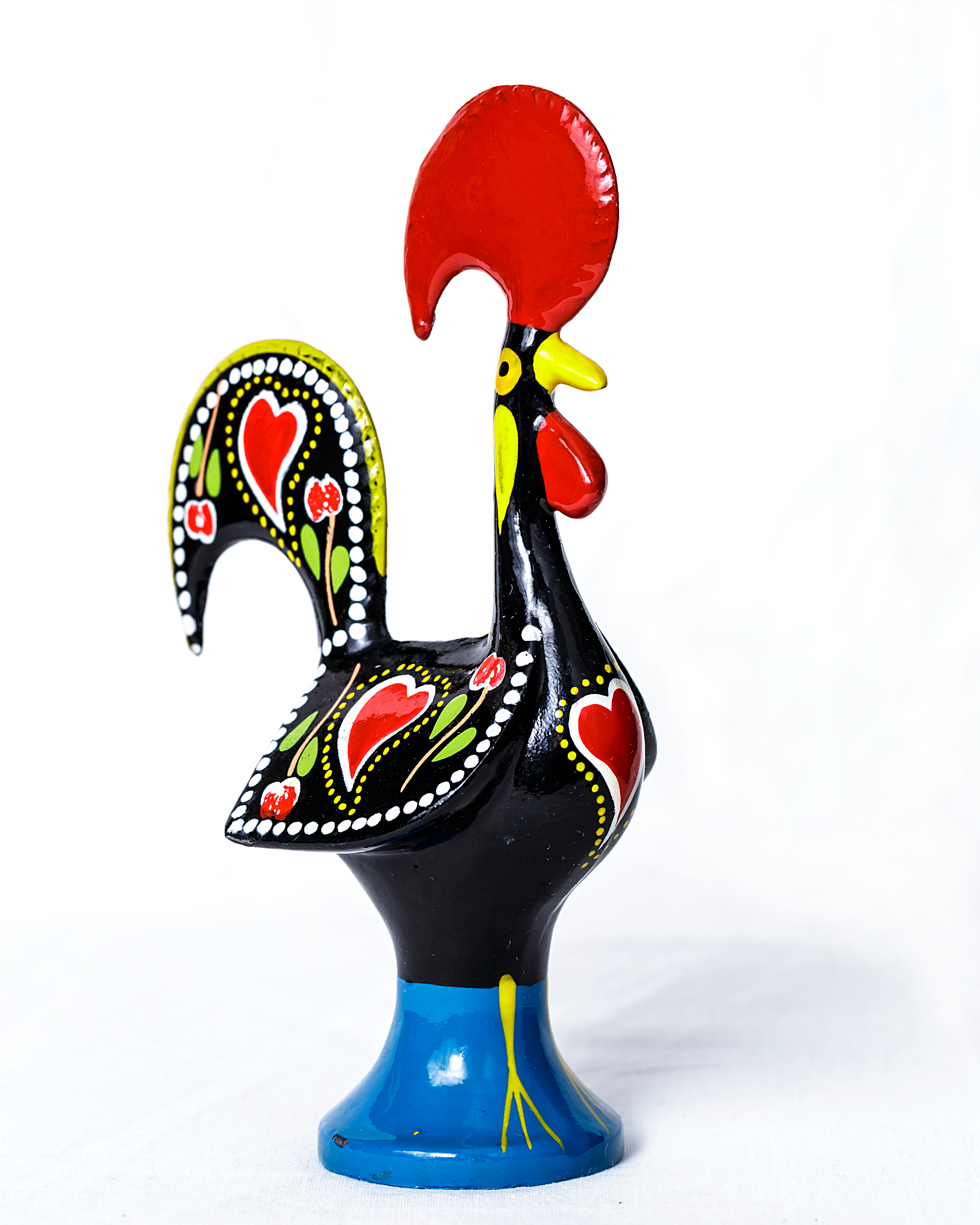 Rooster of Barcelos